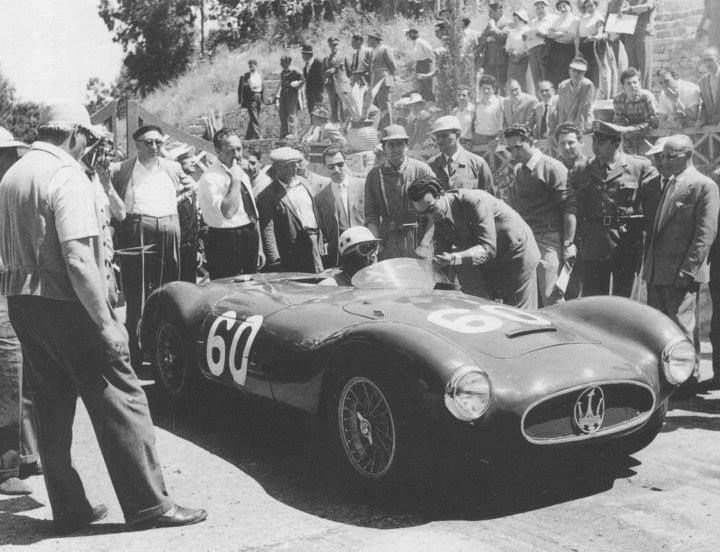 Entry #60 in the 1954 (May 20) Targa Florio is Luigi Musso in a Maserati A6GCS, he also won the race.[1]